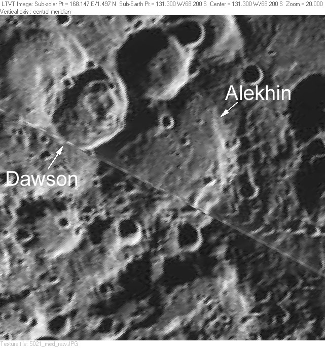 Craters Dawson and Alekhin